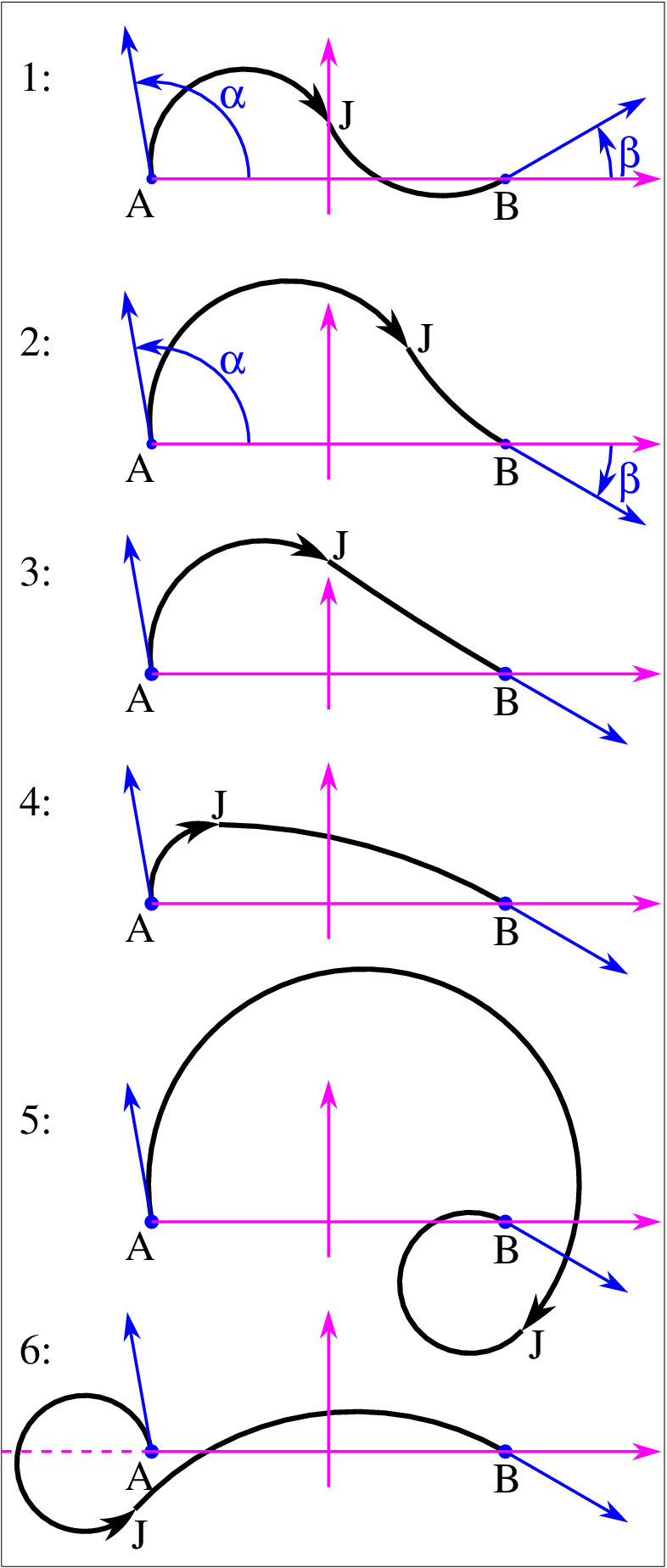 6 examples of biarc curves